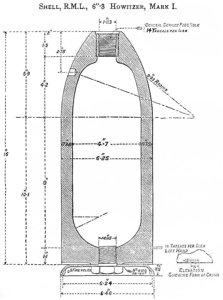 Diagram of Mk I common shell for British RML 6.3 inch howitzer. Rotation is applied by the copper gas-check expanding on firing and engaging with the 20 rifling grooves of the gun barrel.